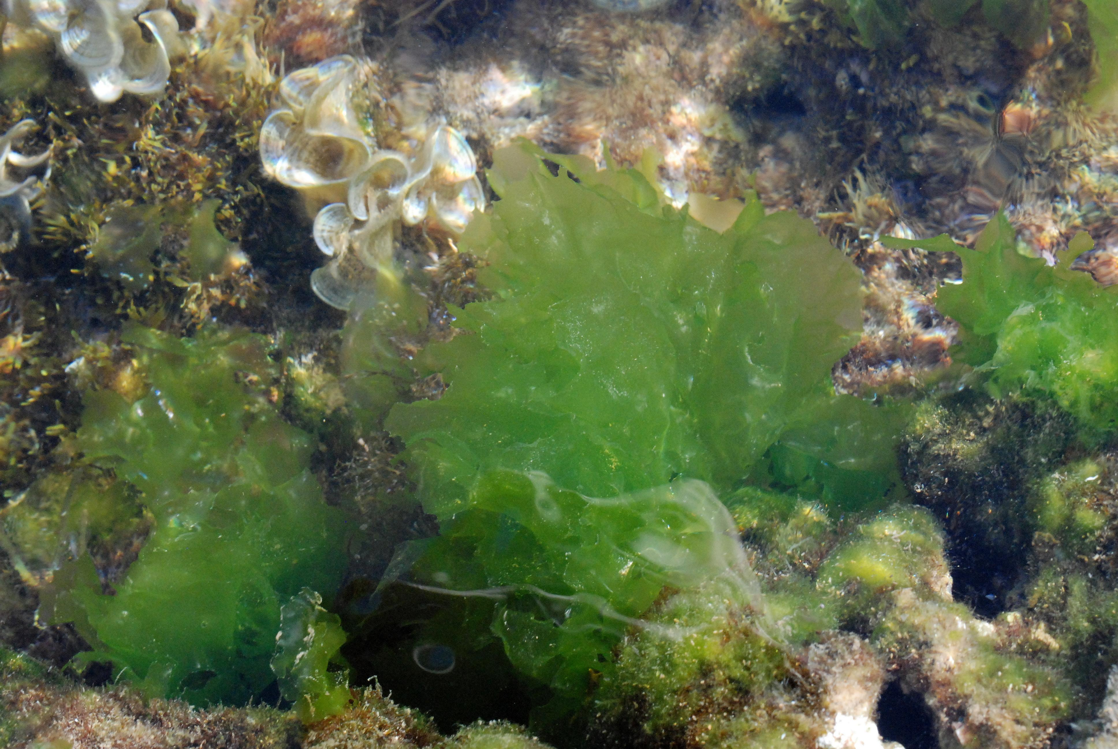 Ulva lactuca, Cala Gracio, Ibiza